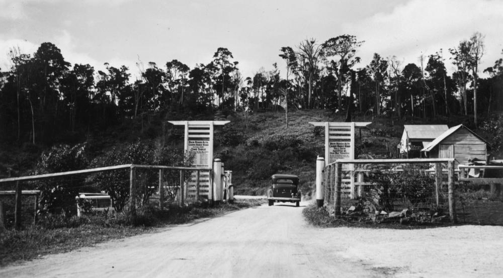 Top gate entering Gillies Highway North Queensland outside Cairns circa 1935